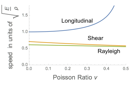 Comparison of longitudinal, Rayleigh, and shear wave speeds for an isotropic linear elastic medium, plotted as a function of Poisson ratio. The medium is assumed to have only two independent elastic constants, which can be cast as the Young's modulus E and the Poisson ratio {\displaystyle \nu }. The Rayleigh speed curve shown is an approximation to the analytic solution, with the error growing as the Poisson ratio is lowered. The small discrepancy from the analytic solution is about 0.01 {\sqrt(E/\rho)} at {\nu=0}, where the error is maximal.